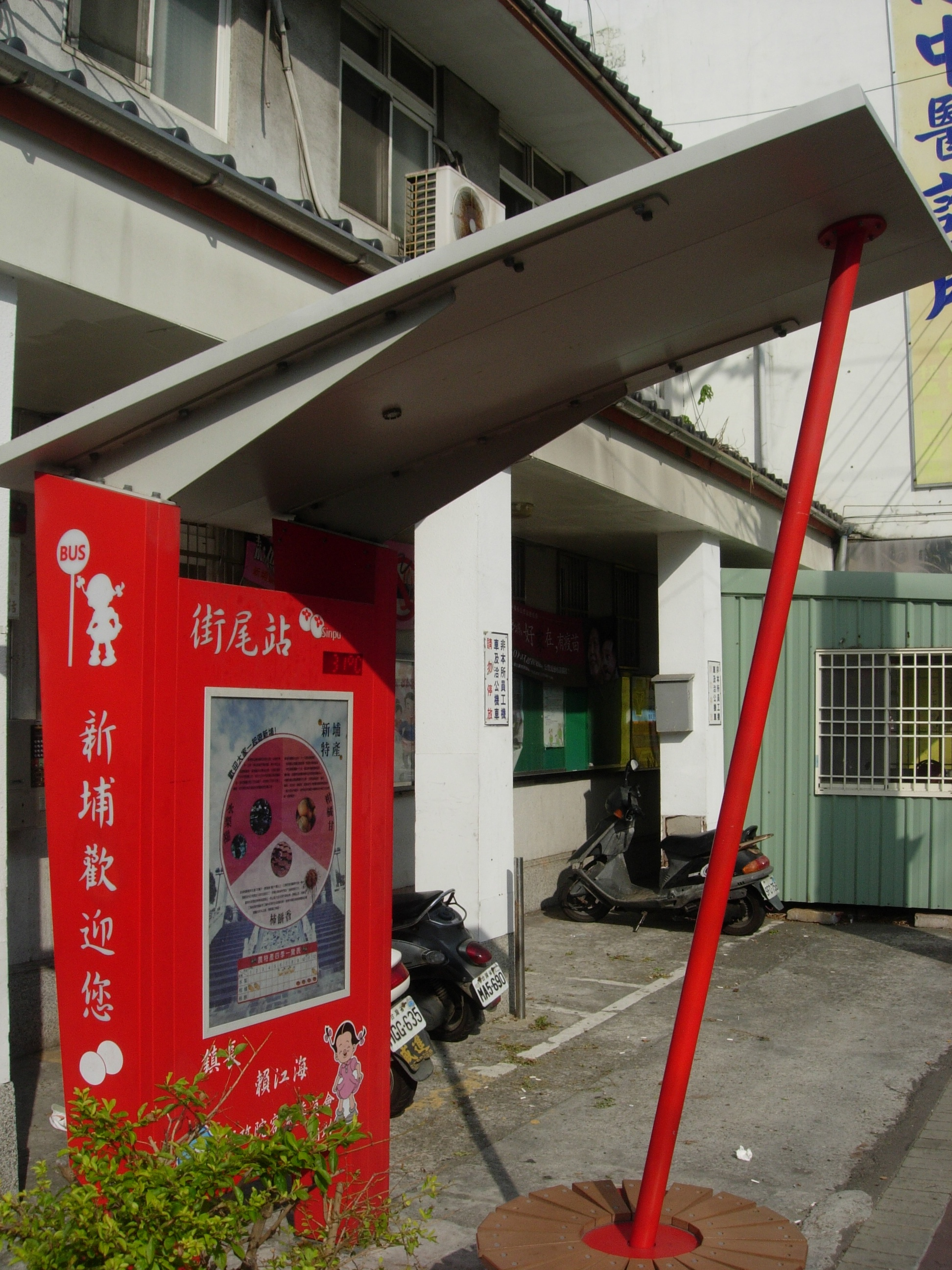 Hsinpu Bus Stop中文（台灣）: 新竹縣新埔鎮特色站牌